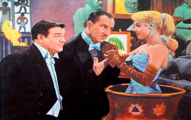 Cropped and edited lobby card for the 1955 American movie Abbott and Costello Meet the Mummy. This image is assumed to be in the public domain as no copyright was attached to the original.